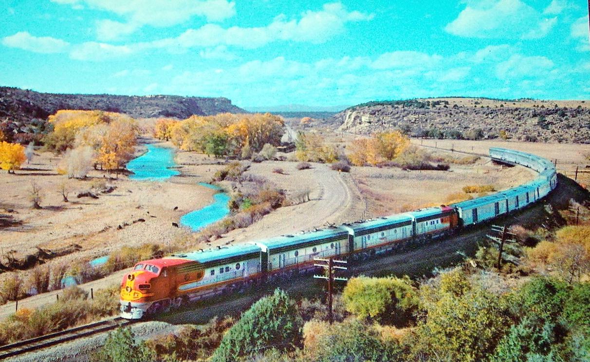 Postcard photo of the Santa Fe train El Capitan as it passes through Shoemaker Canyon, New Mexico.